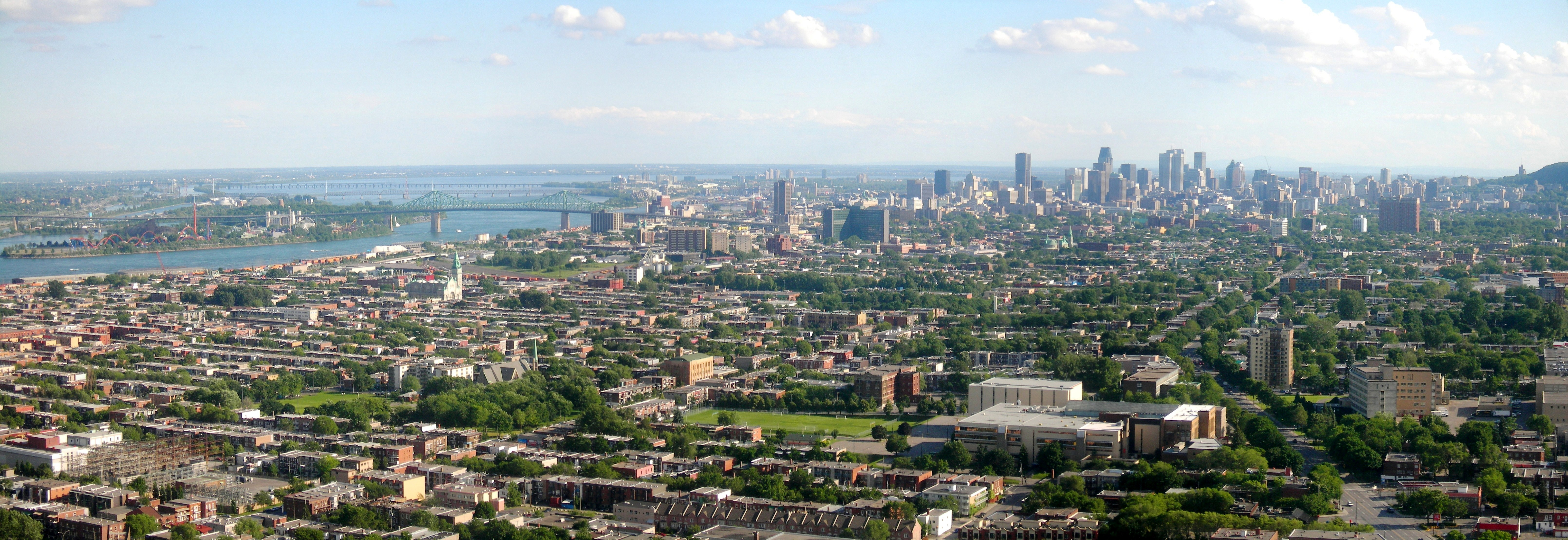 View of Montreal from the Olympic Stadium Tower